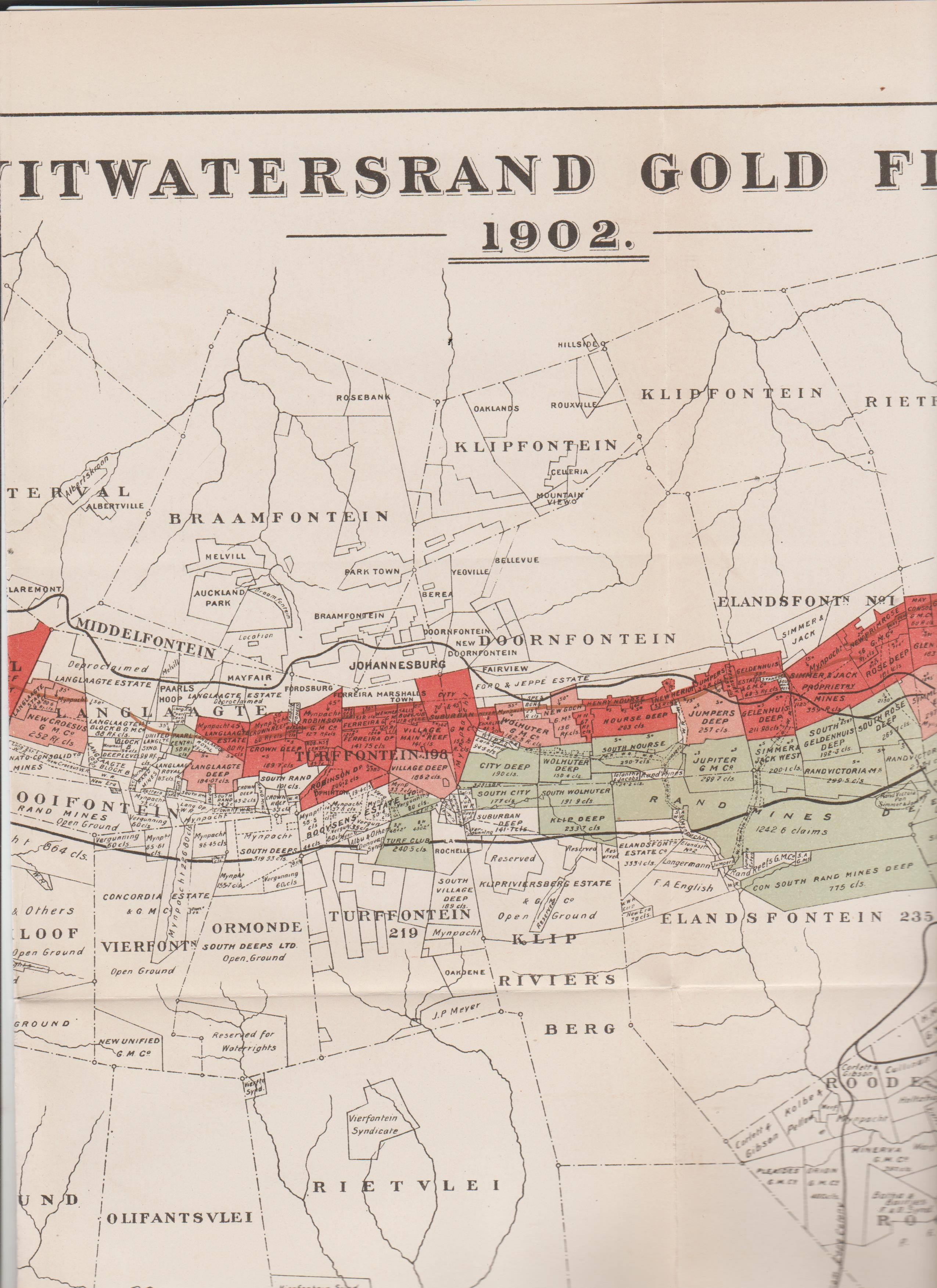 The Map shows the Johannesburg Gold Mines and suburbs as they were in 1902